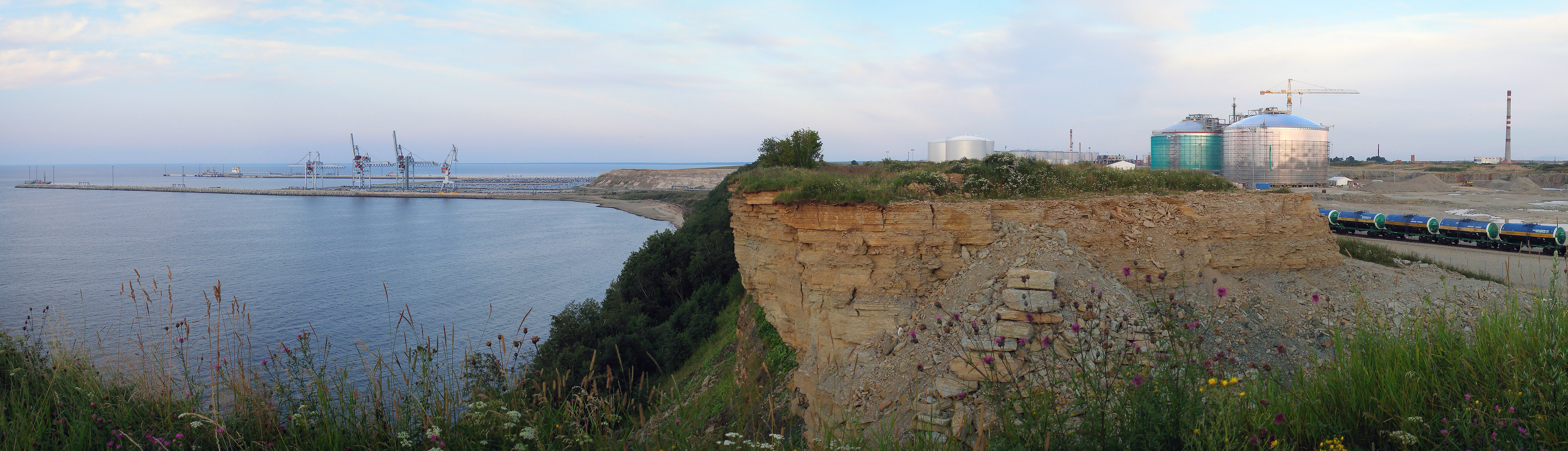 The port of Sillamäe, Estonia.